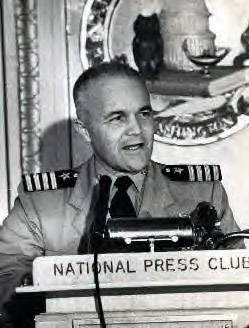 Photo of Captain Edward L. Beach, Jr., USN, at the National Press Club following the first submerged circumnavaigation of the world in 1960 made by the nuclear-powered submarine during Operation Sandblast. U.S. Navy photo courtesy of the U.S. Naval Institute.